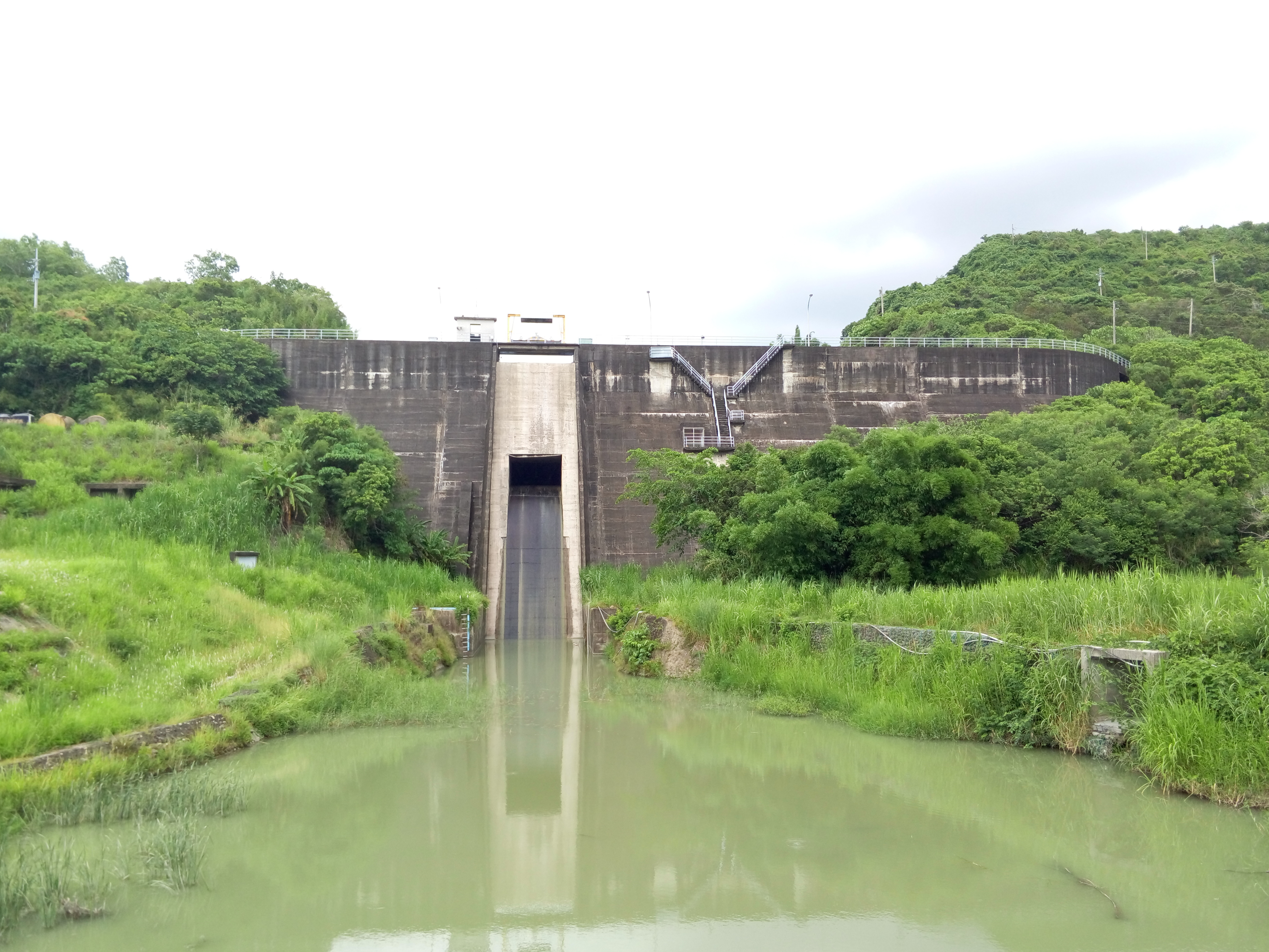 Taiwan(R.O.C)Tainan City Nanhua District Jingmian Reservoir Dam